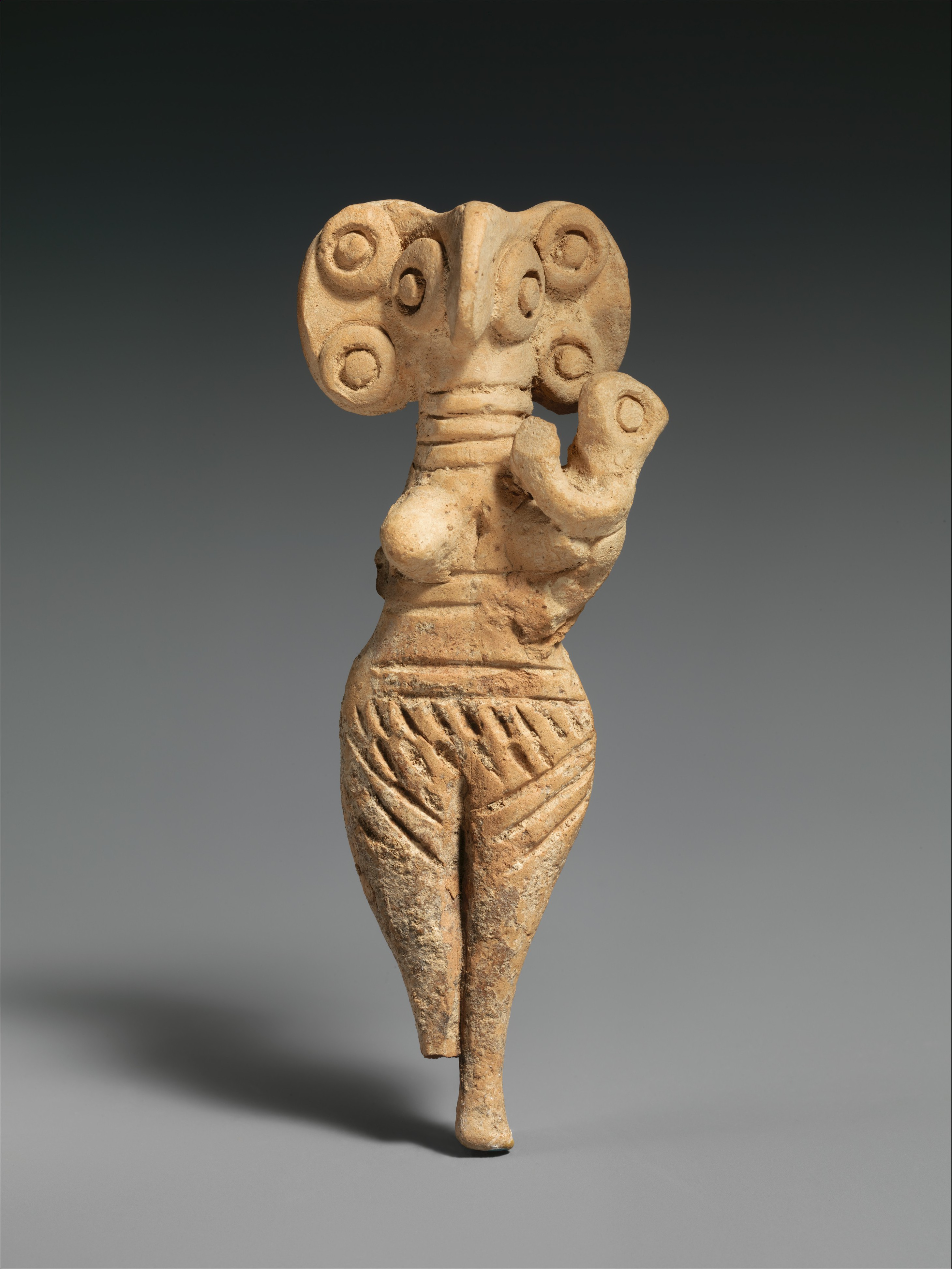 Cypriot; Statuette of a woman with bird face; Terracottas